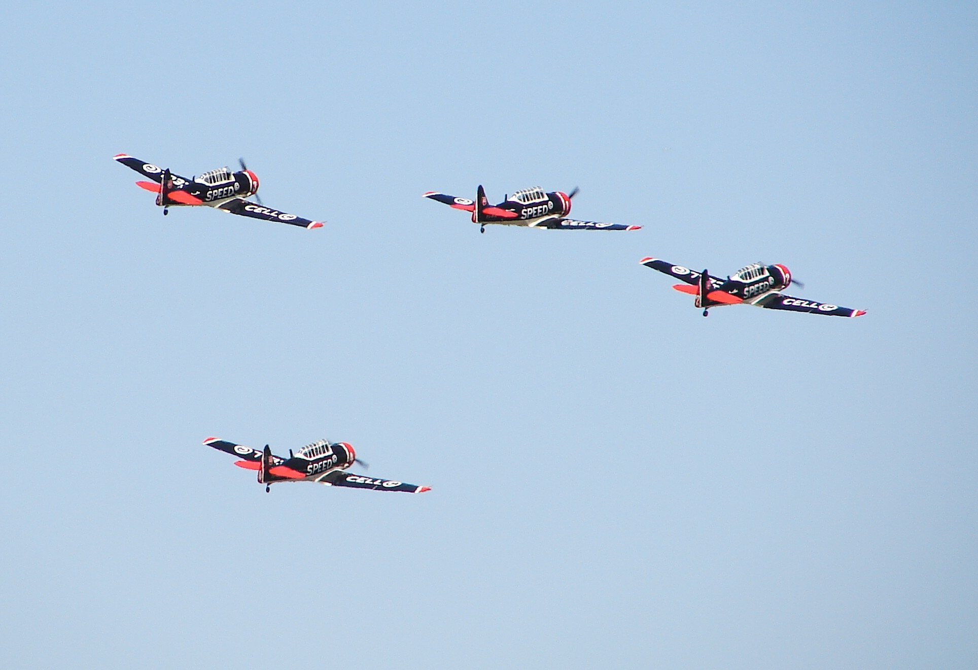 Harvards of the Cell-C team at AAD 2010, AFB Ysterplaat ZU-AYS (1), ZU-BET (2), ZU-BEU (3), ZU-BMC (4)